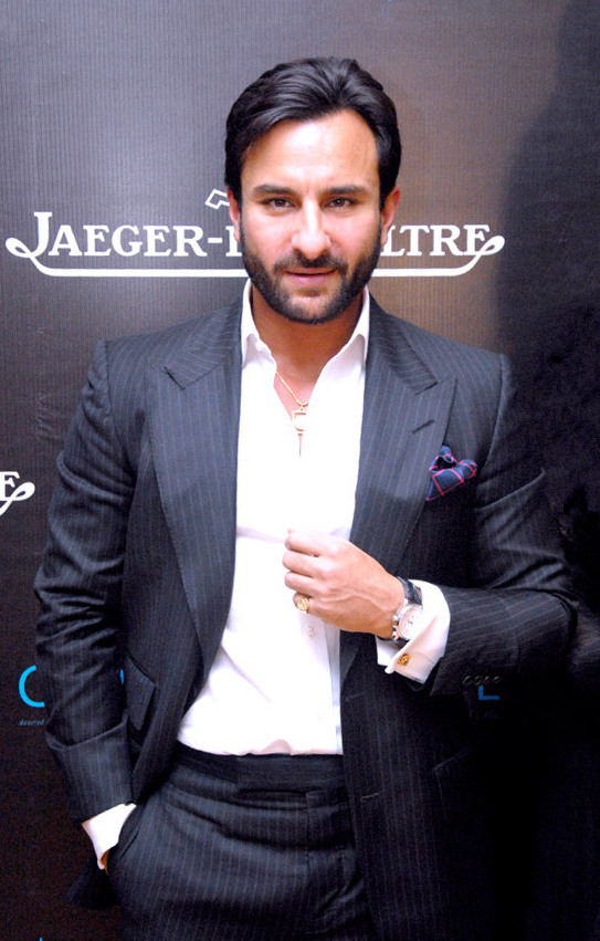 Saif Ali Khan snapped at Imperial Hotel, New Delhi